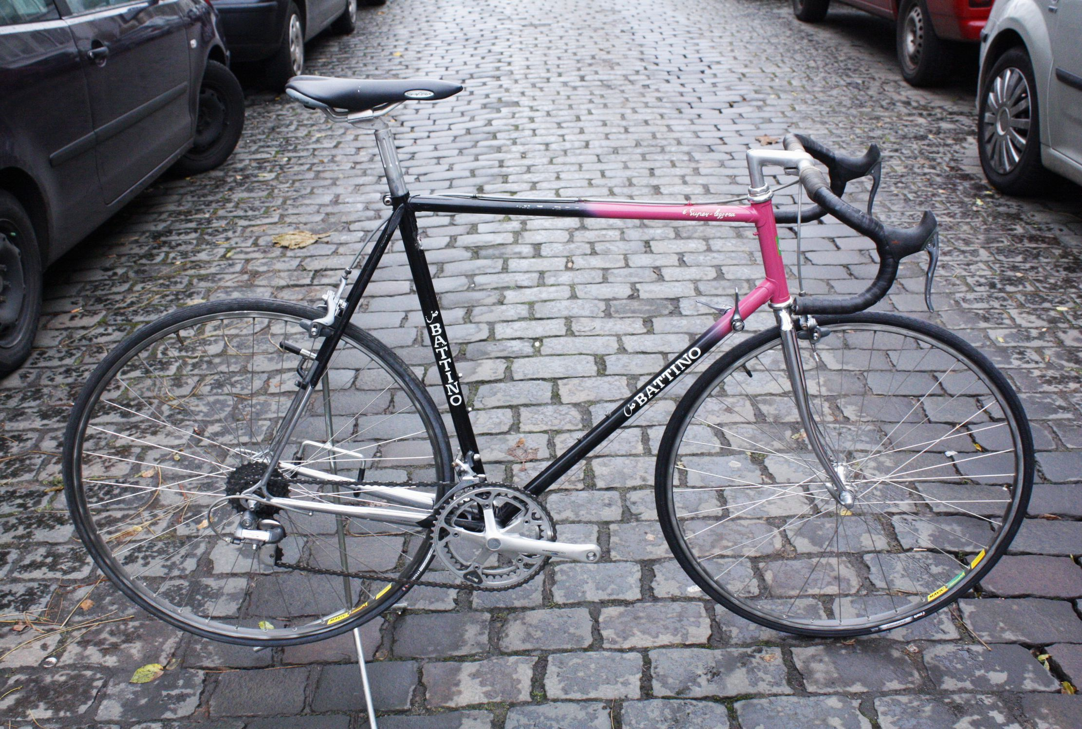 A Roadbike of "Cia Battino" a brand of German Rose Shop, produced in Italy